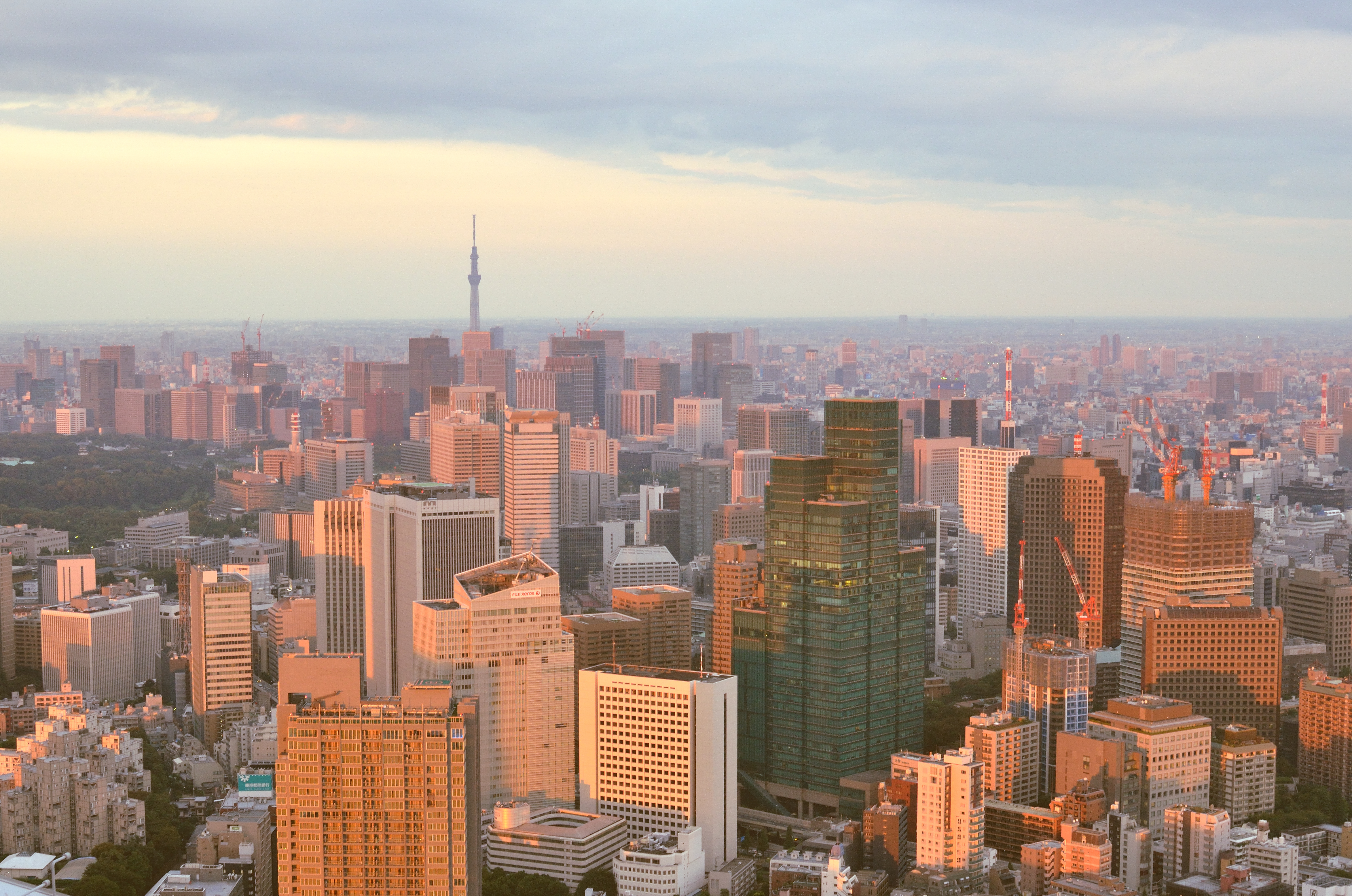 Seeing northeast from Roppongi Hills Mori Tower